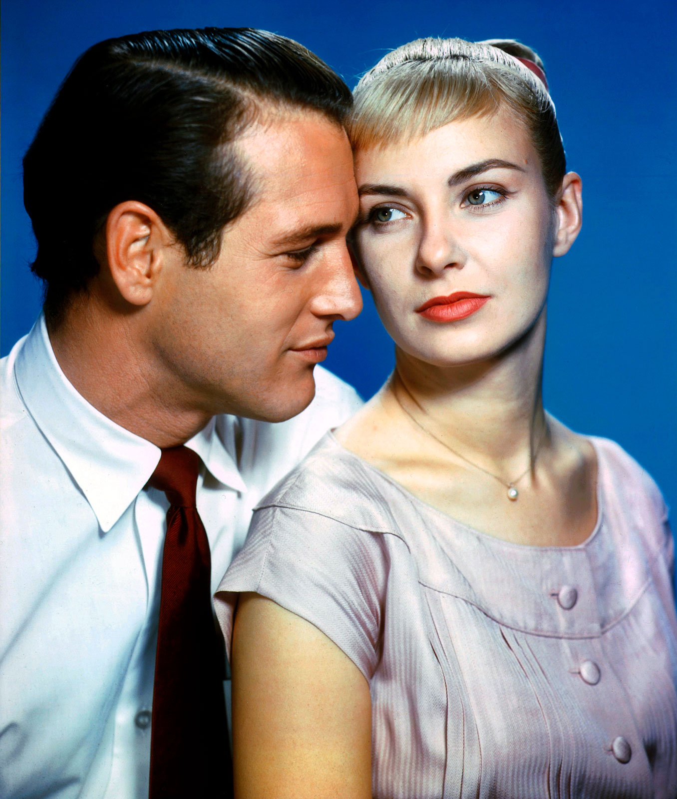 Publicity portrait of the movie The Long, Hot Summer, depicting Paul Newman and Joanne Woodward